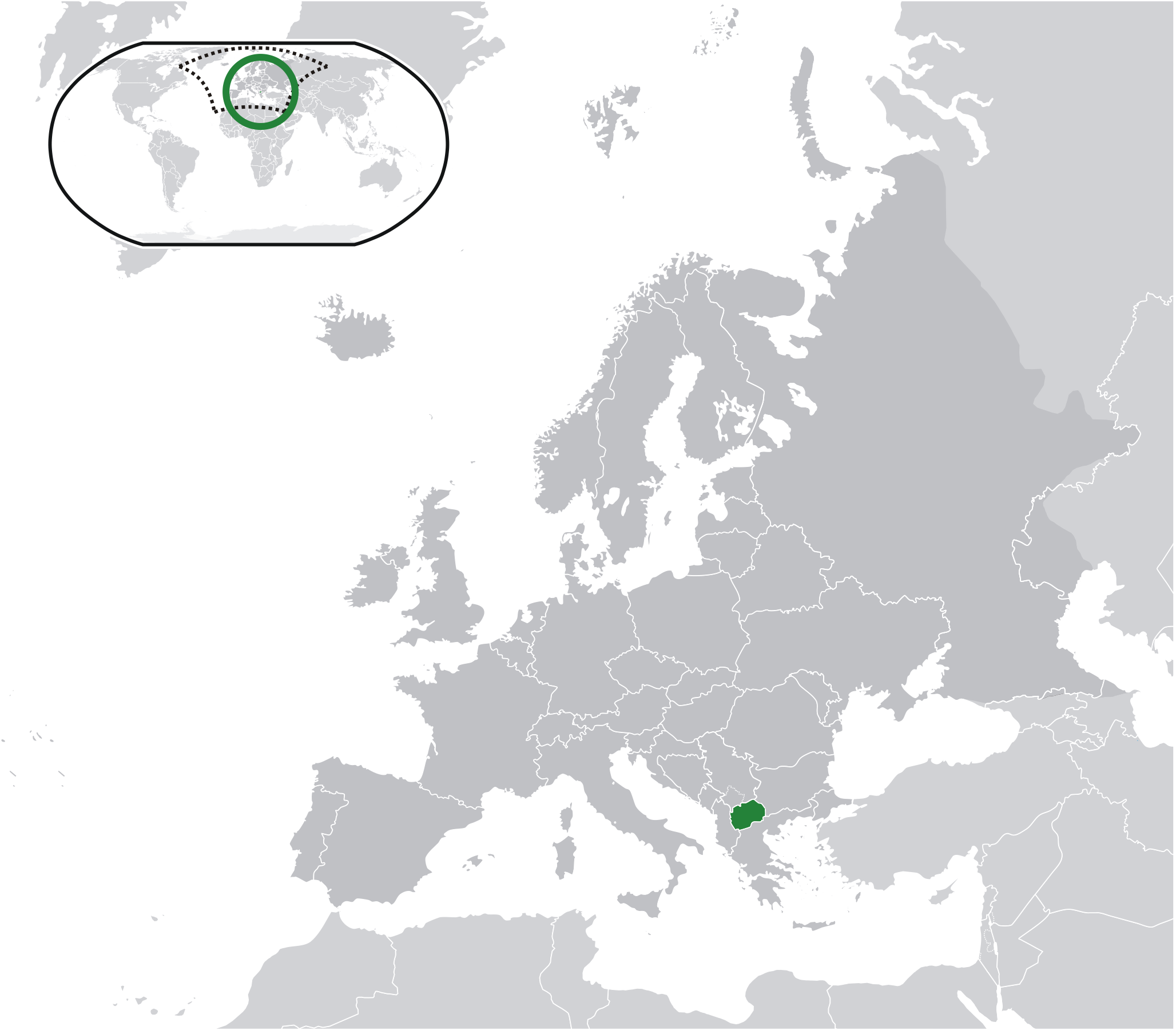 Republic of North Macedonia (green): inspired by and consistent with general country locator maps by User:Vardion, et al